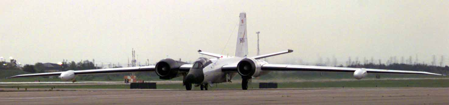 One of NASA's WB-57F research aircraft, N926NA, was used in April 1999 for the Atmospheric Chemistry of Combustion Emissions Near the Tropopause (ACCENT) mission, which studied the effects of rockets on the atmosphere.